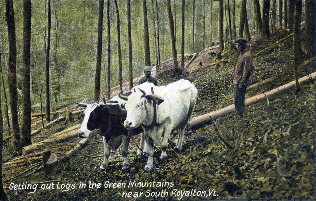 Getting out logs in the Green Mountains near South Royalton, VT; from a c. 1907 postcard published by the Hugh C. Leighton Company, Portland, Maine.